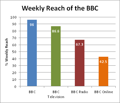 A graph showing the weekly reach of the BBC itself, along with its combined reach for Radio, Television and BBC Online. Data supplied by the BBC in the public document, their Annual Report 2011/12 and from [1]